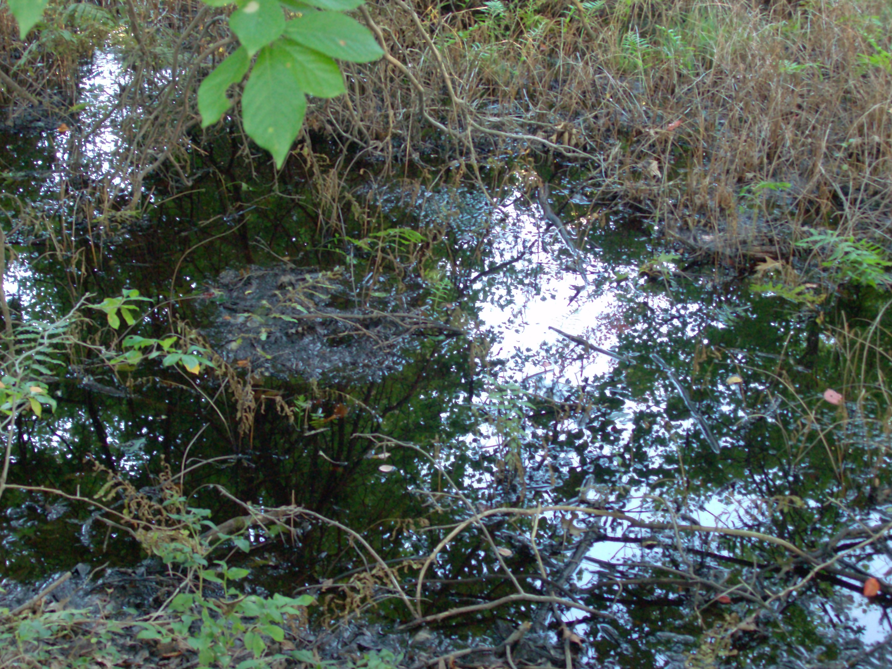 The Kent Bog